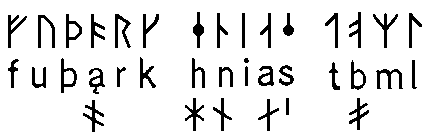 Icelandic rune alphabet